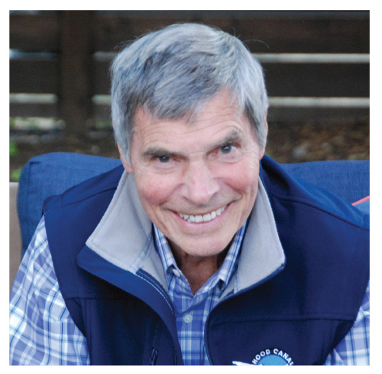 Dan O'Neal